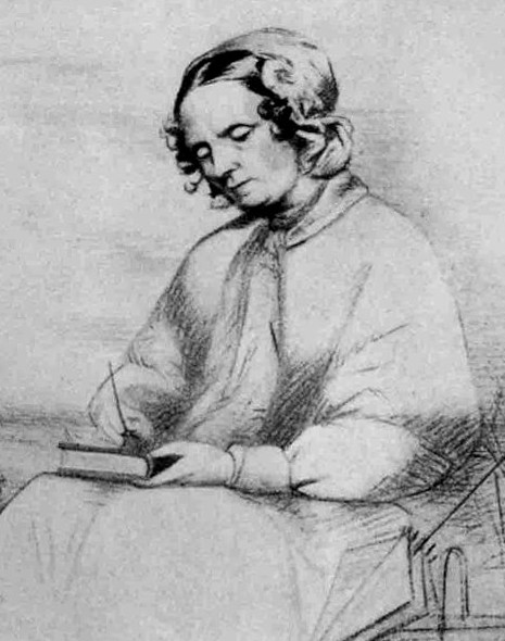 Asenath Nicholson by Anna Maria Howitt (dies 1888)